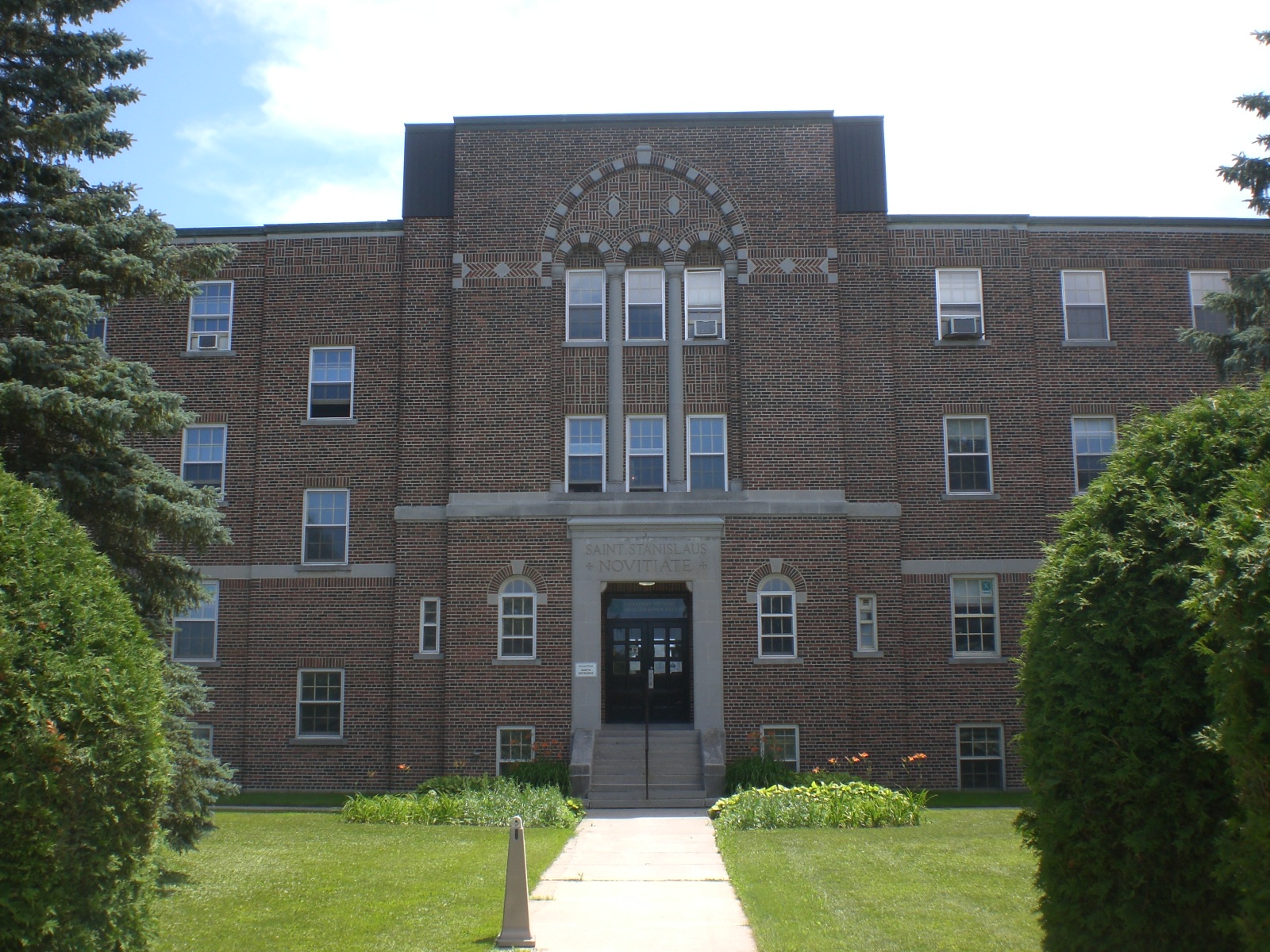 Entrance to the former Jesuit novitiate in Guelph. As of 2014, it was an office of the Canadian Mental Health Association